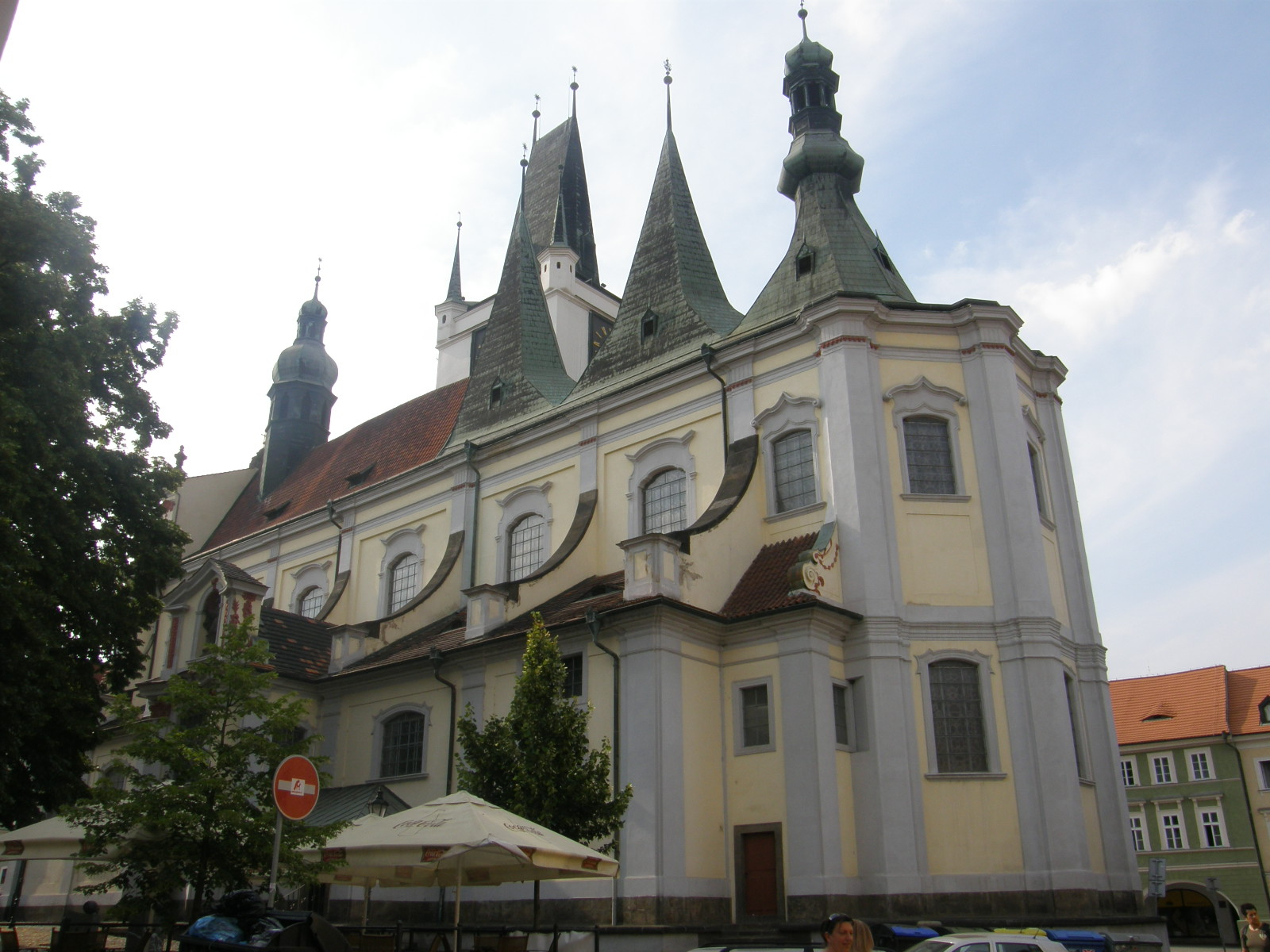 Tented roof of All Saints church in Litoměřice.